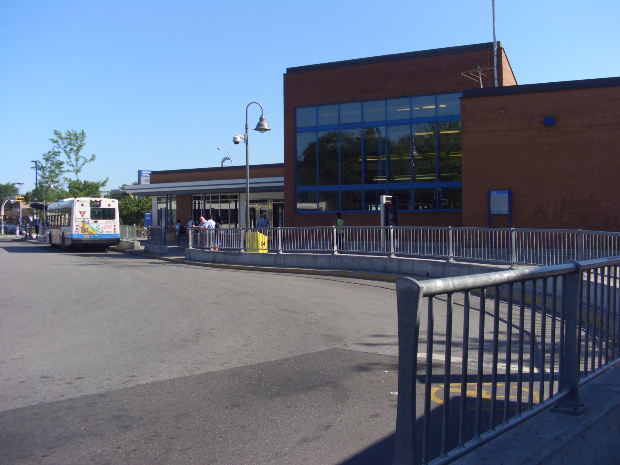 Terminus Côte-Vertu NORD, Saint-Laurent, Montreal, Quebec, Canada